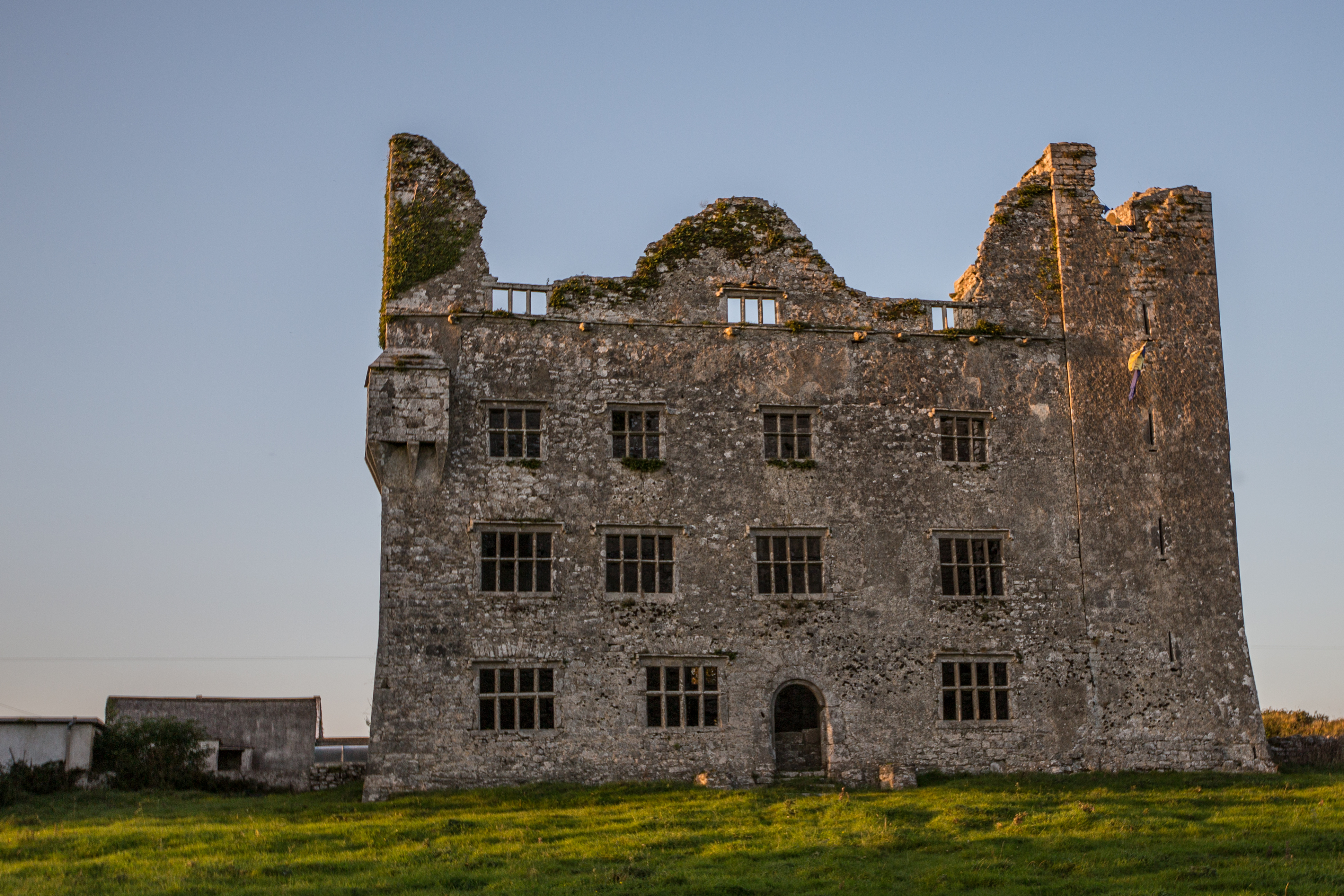 Leamaneh Castle Ireland 12283094446 o